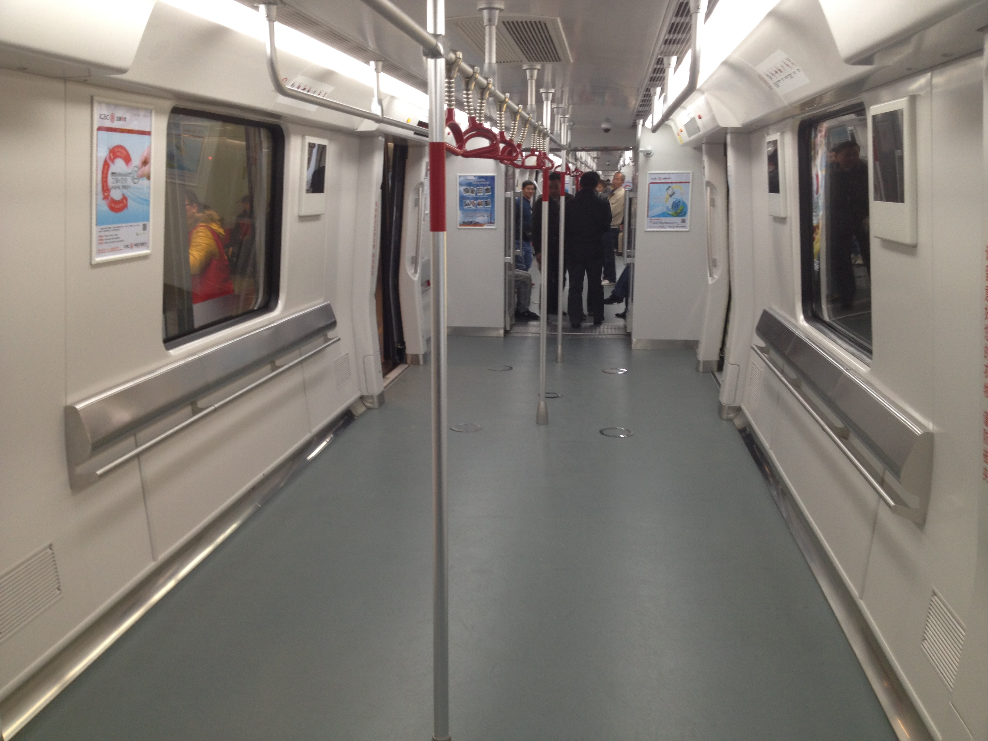 Guangzhou Metro Line 6 and the interior of the car seat